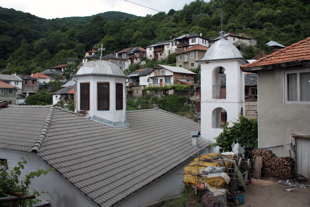 View of Delchevo, Bulgaria